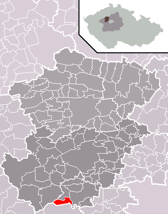 Location of Malé Kyšice municipality within Kladno District and administrative area of Kladno as a Municipality with Extended Competence.